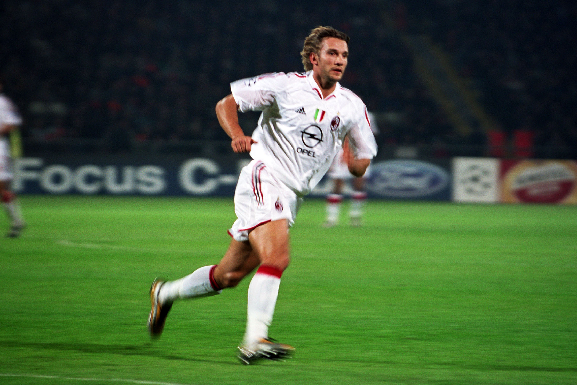 Ukrainian footballer Andriy Shevchenko with AC Milan, 2004.